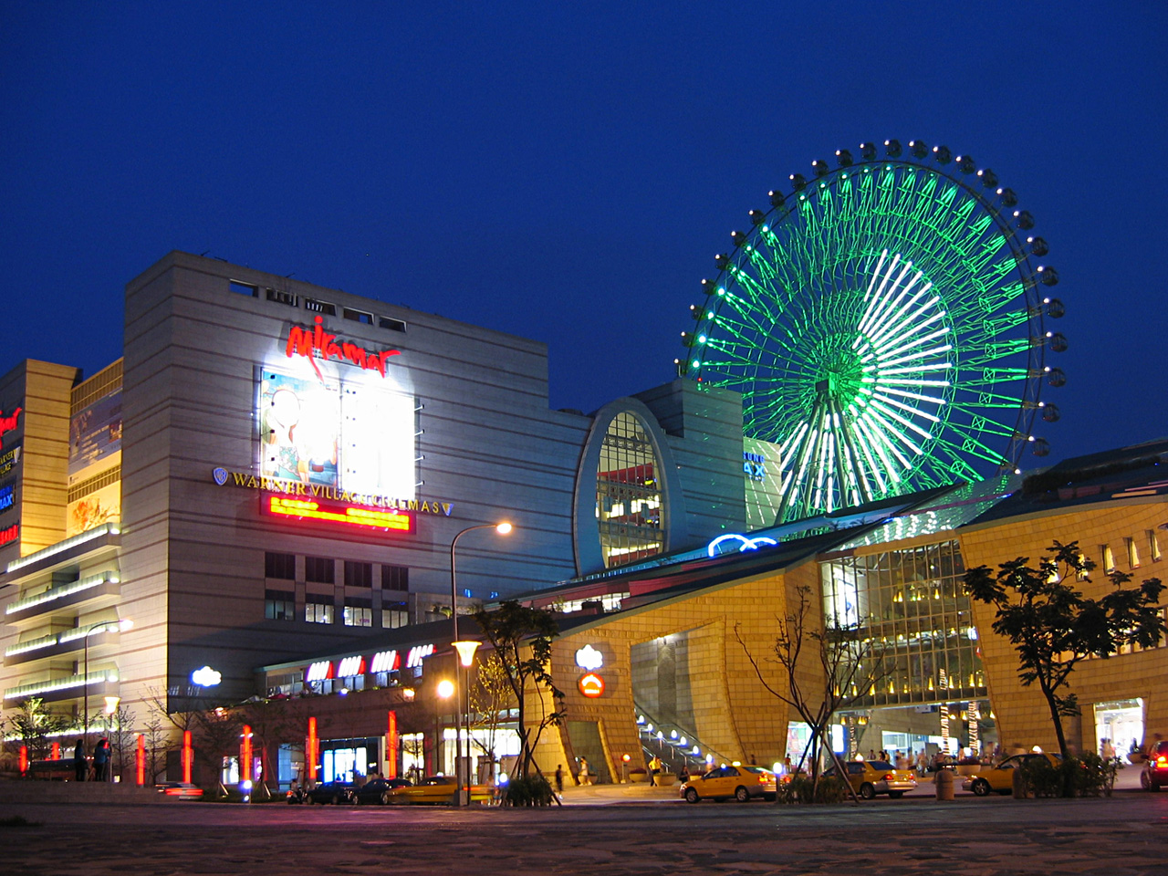 Miramar Entertainment Park in the evening.中文（台灣）: 美麗華百樂園的夜景。